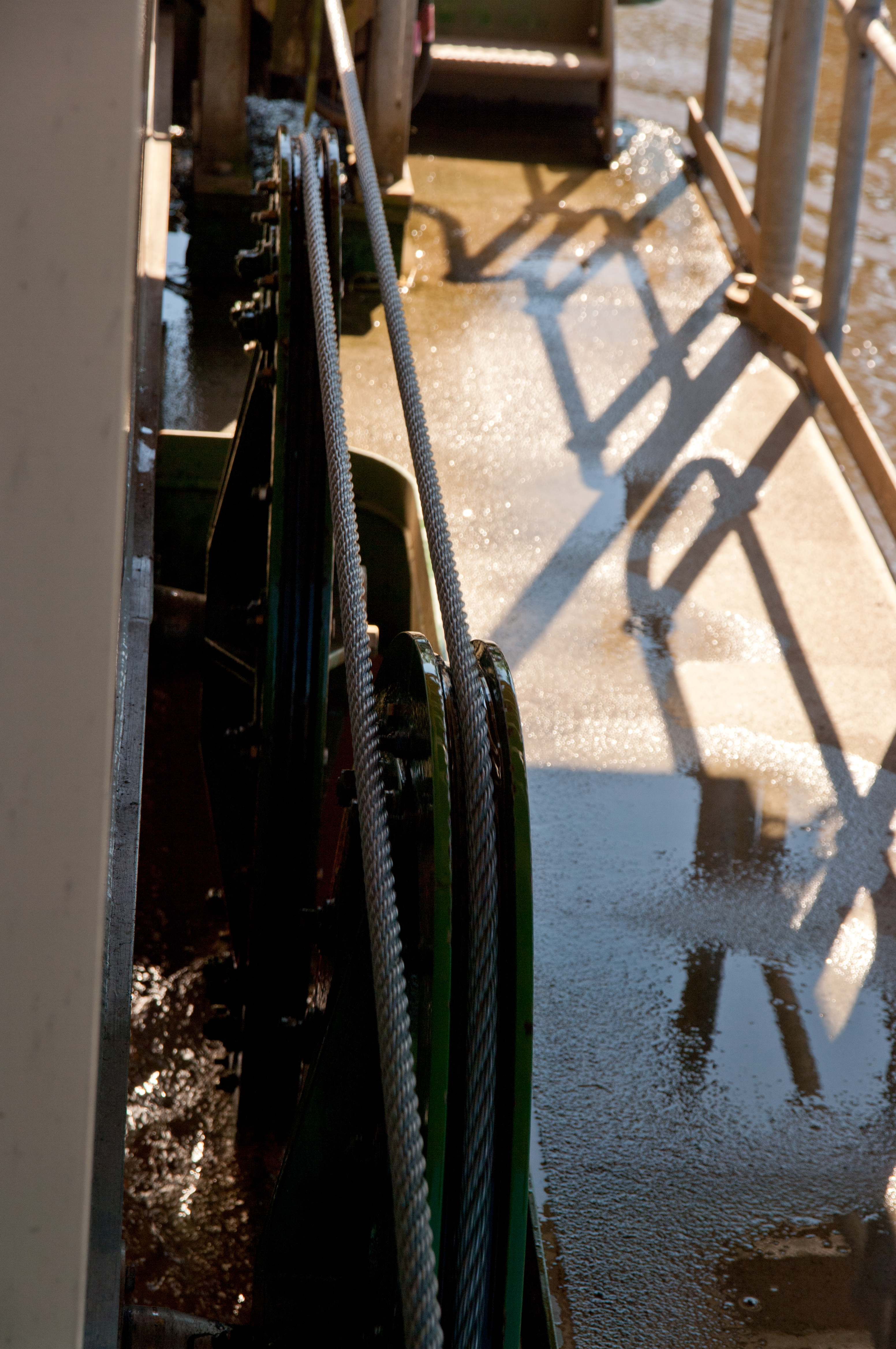 Sackville Ferry is a cable ferry across the Hakesbury river